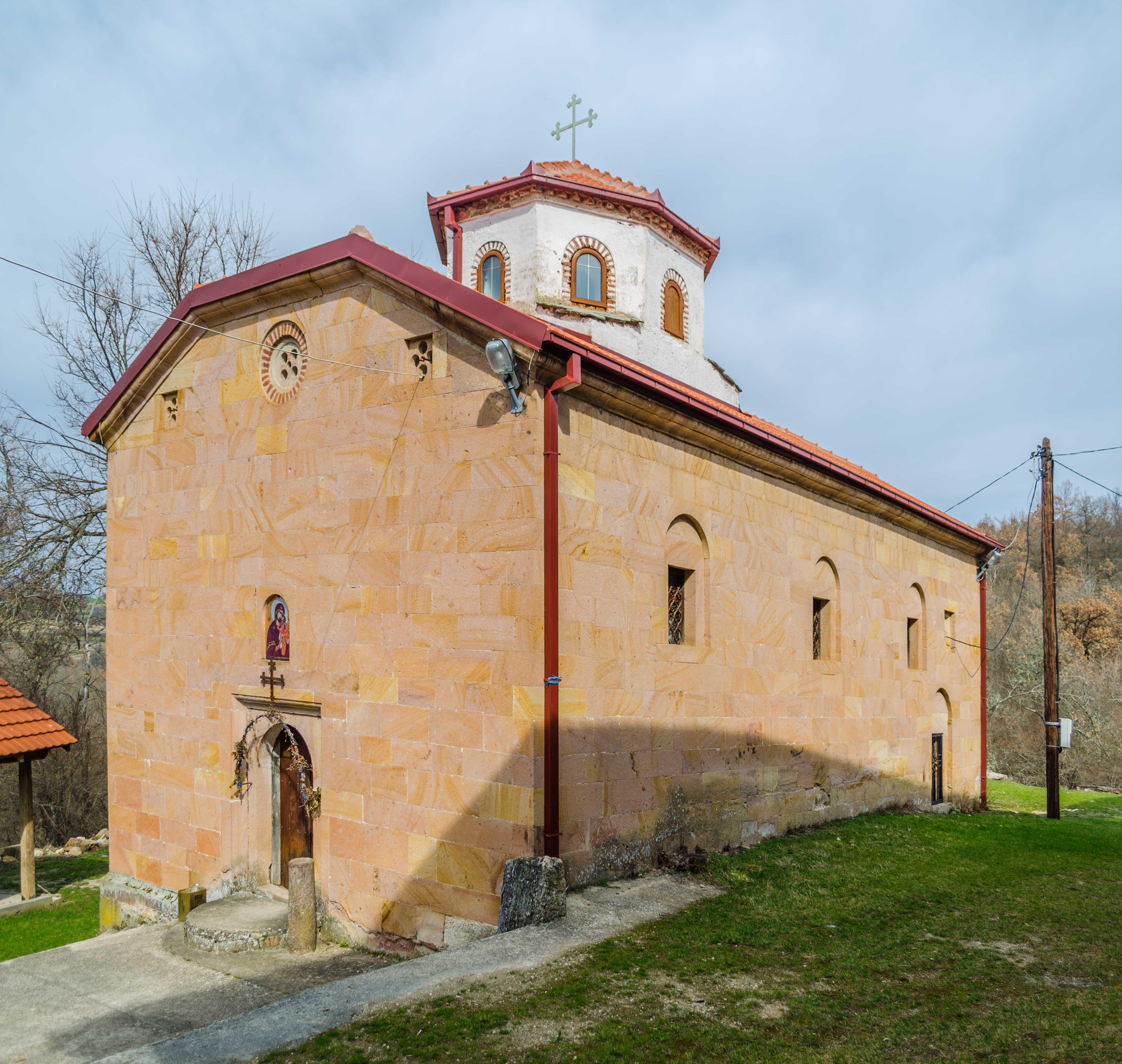 Church of Assumption of the Holy Virgin of the Zabel monastery, Macedonia